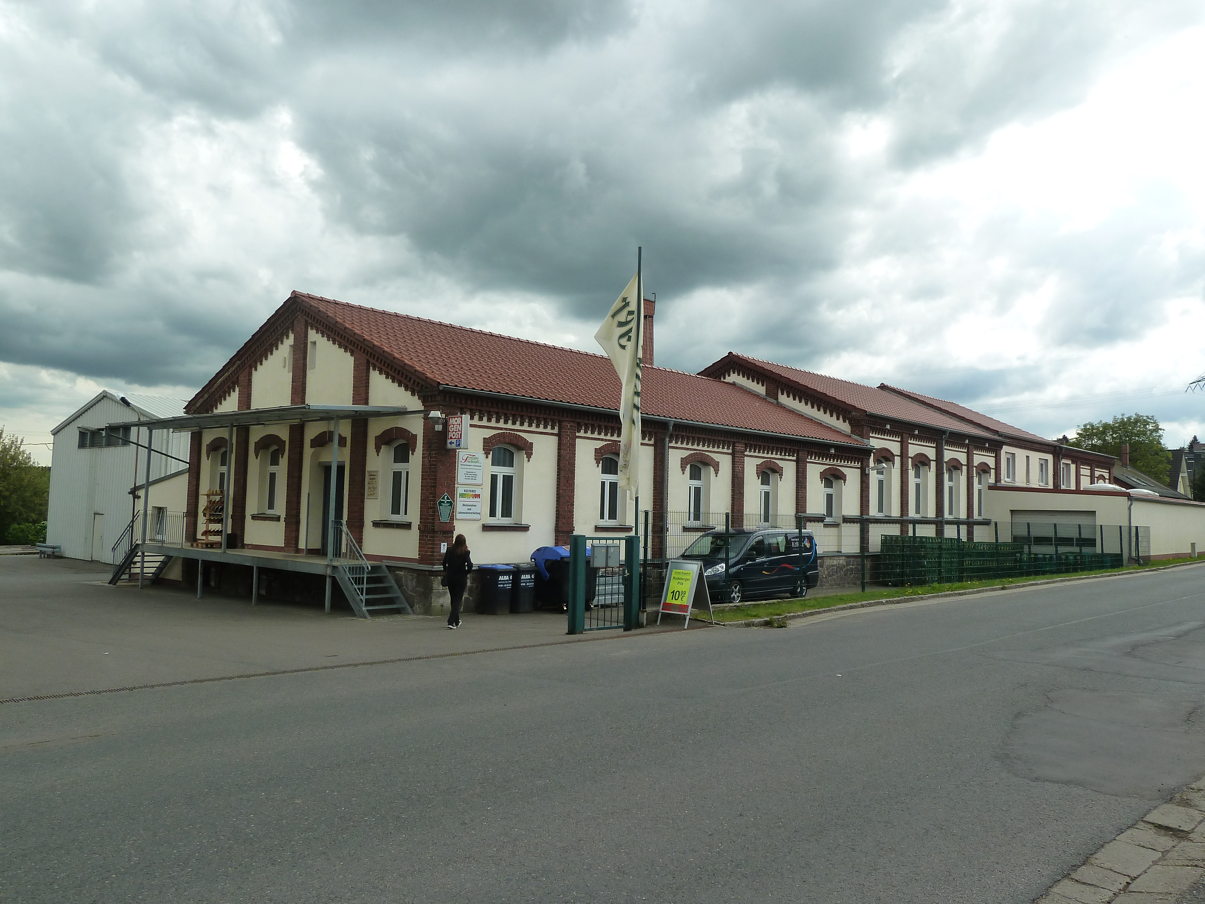 Machine shop and workshop of a colliery, King Georges´ Mine, Weissig (Freital)